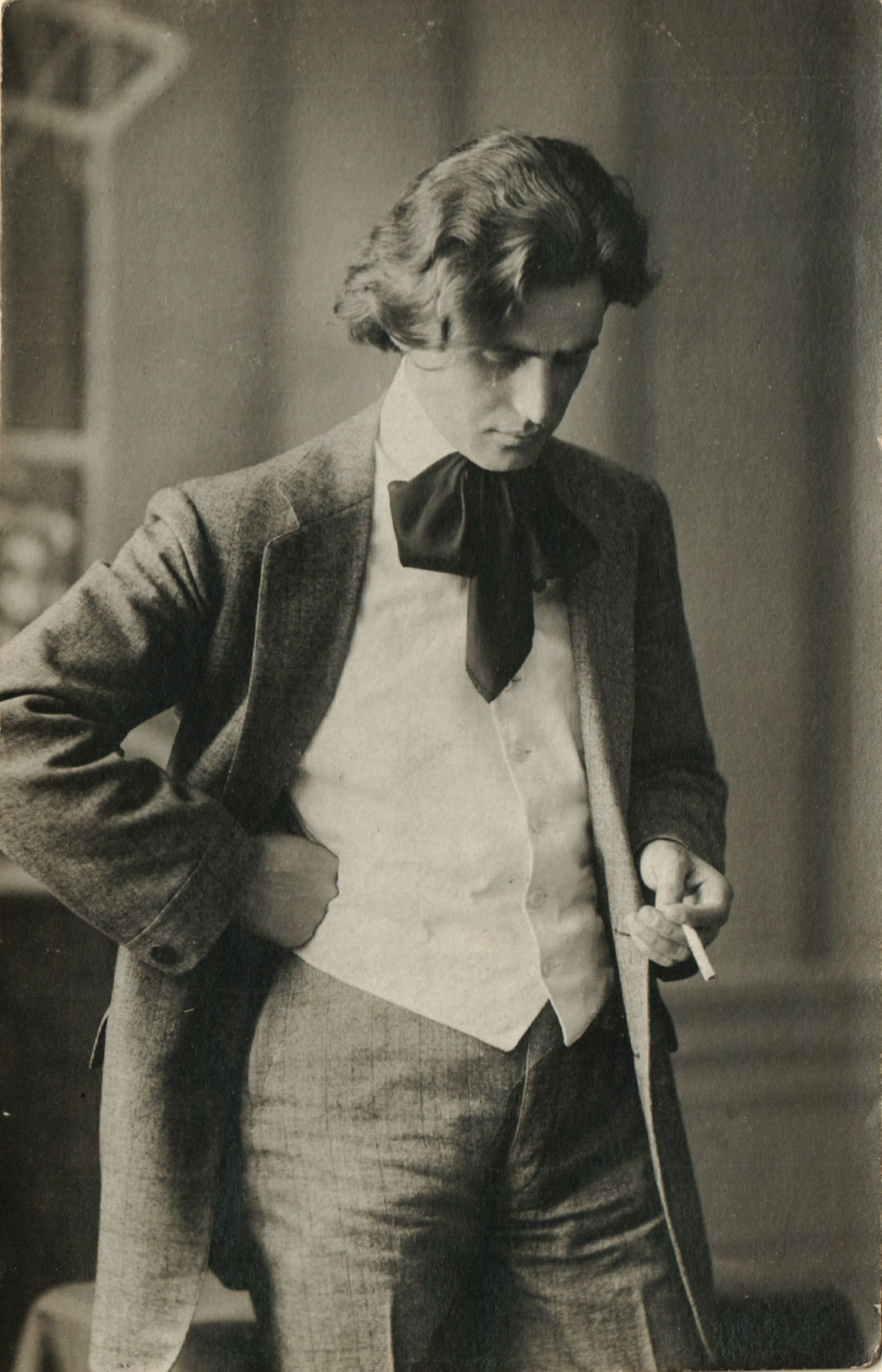 Bulgarian conductor Kosta Todorov (1886-1947)